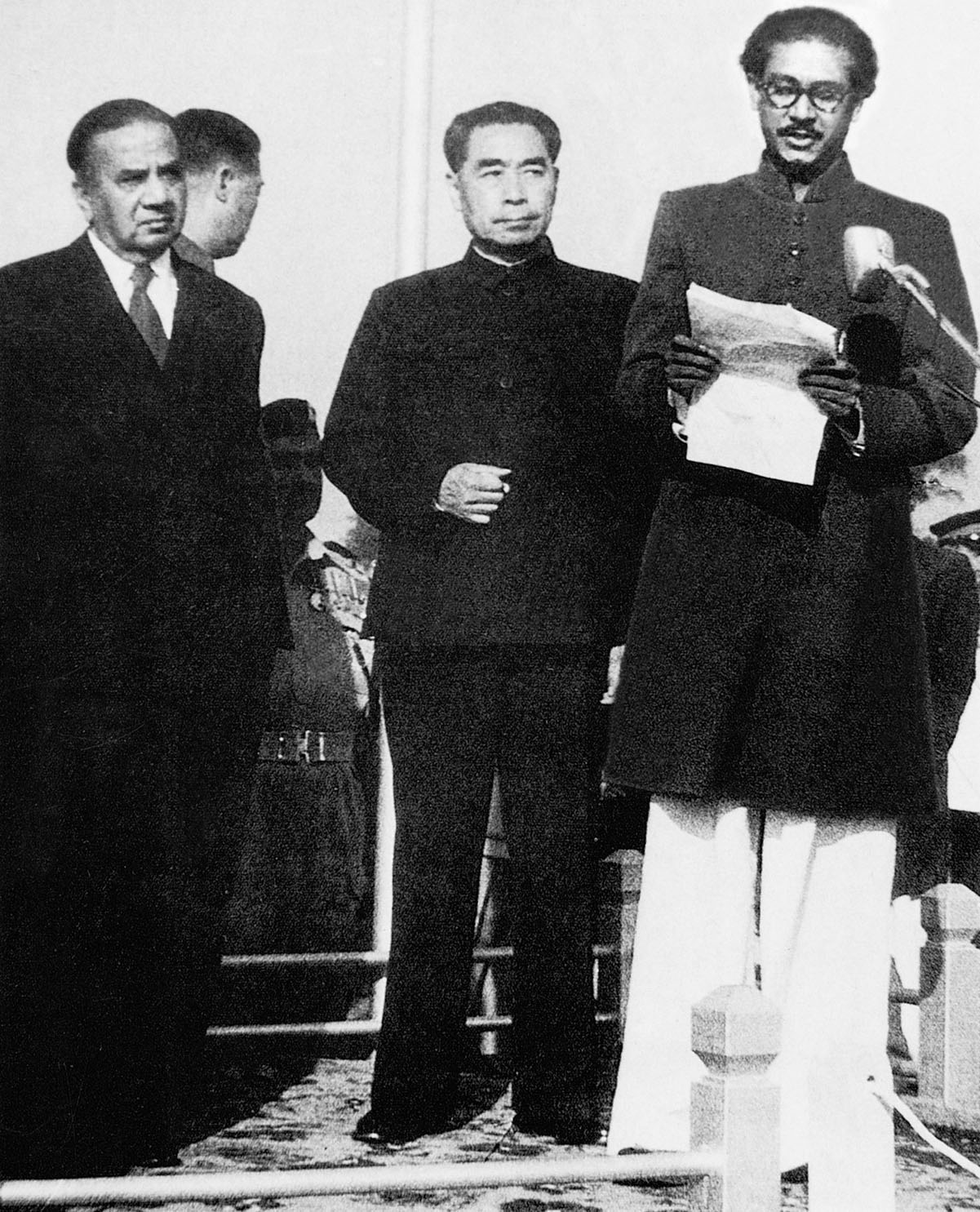 Sheikh Mujib with Pakistani prime minister H S Suhrawardy and Chinese premier Zhou Enlai in Dacca Stadium, 1957